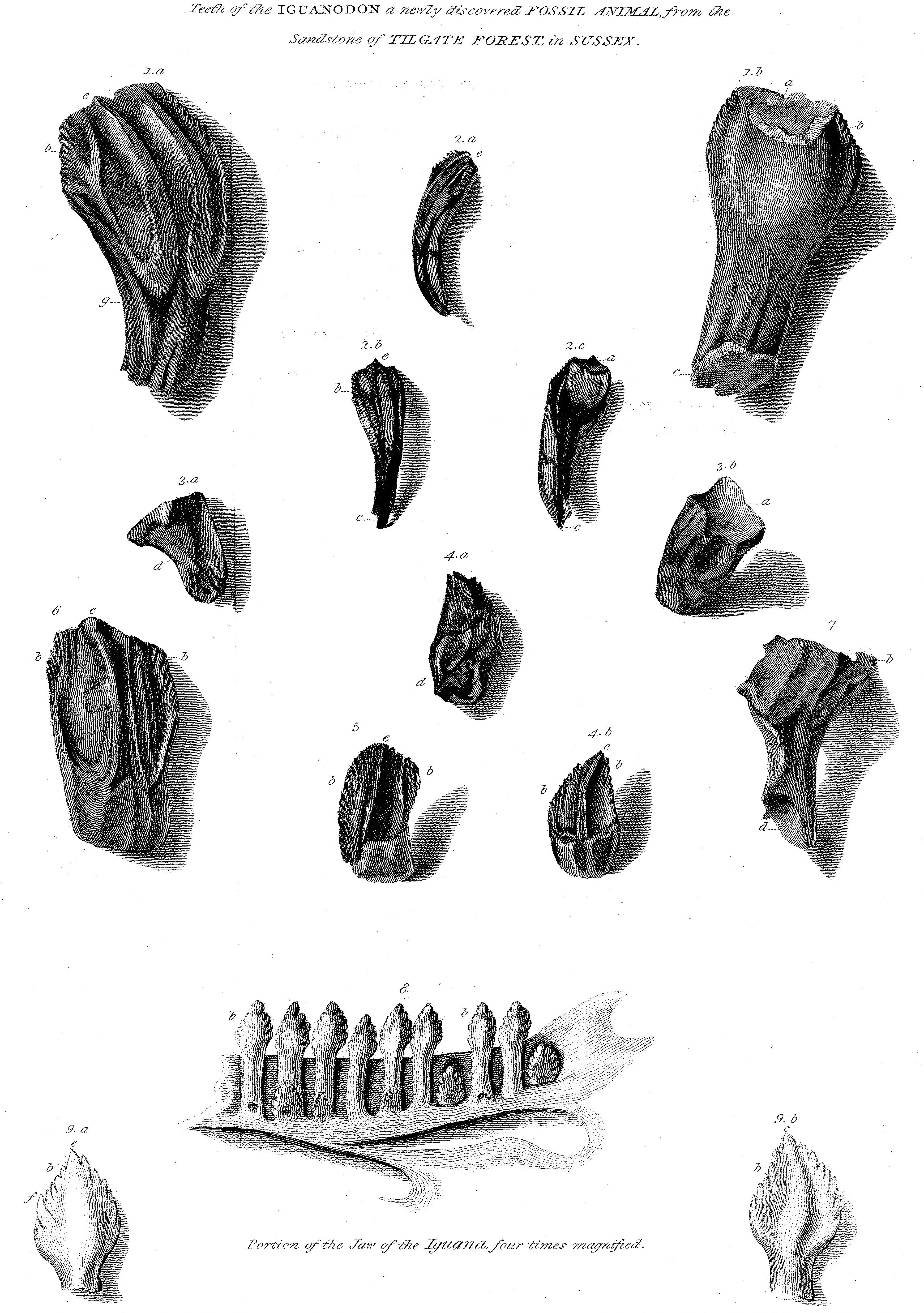 Illustration of the original Iguanodon teeth by Gideon Mantell, 1825.